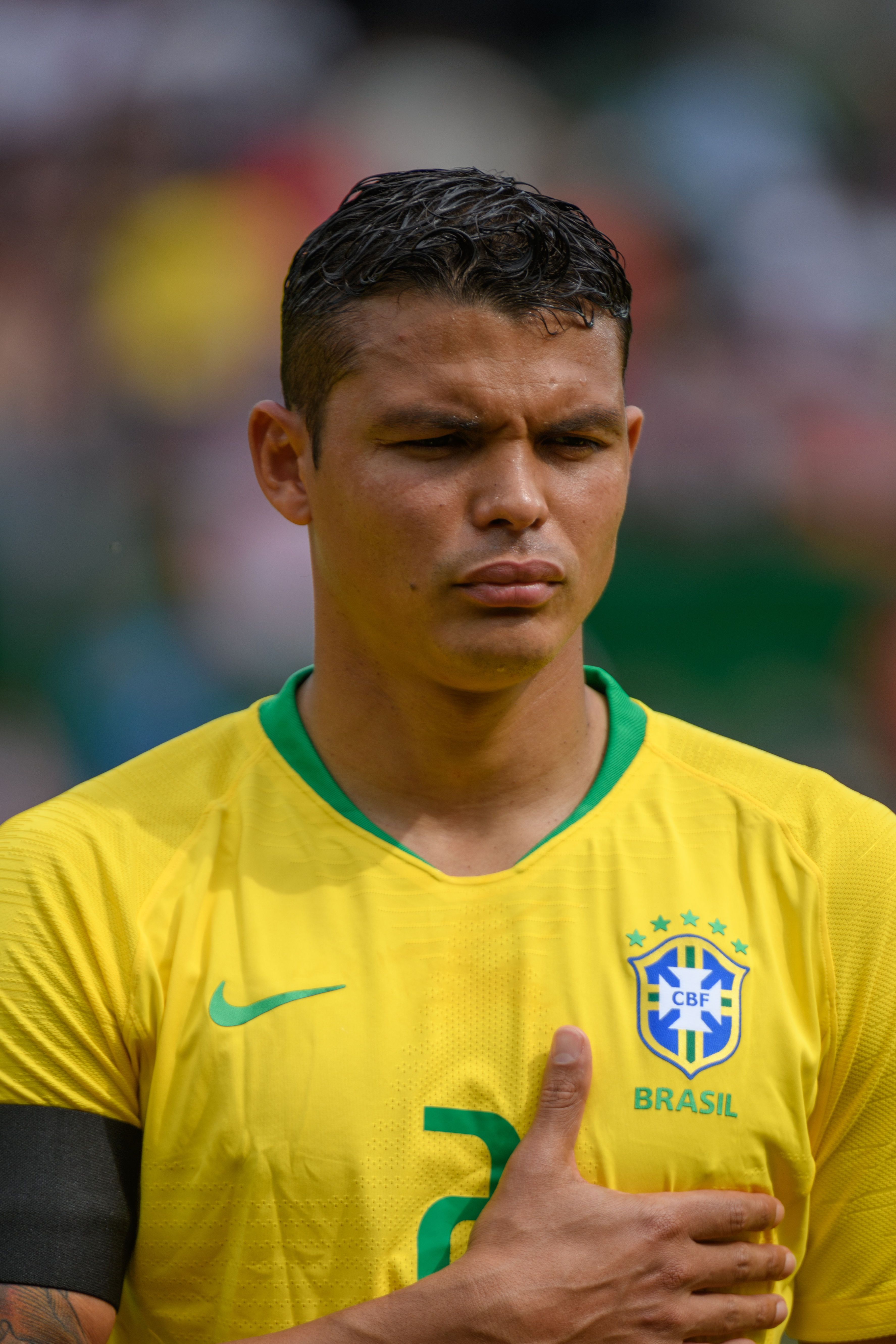 FIFA Friendly Match Austria vs. Brazil 2018/06/10 in Vienna/Ernst-Happel-Stadium. Picture shows Thiago Silva (BRA).